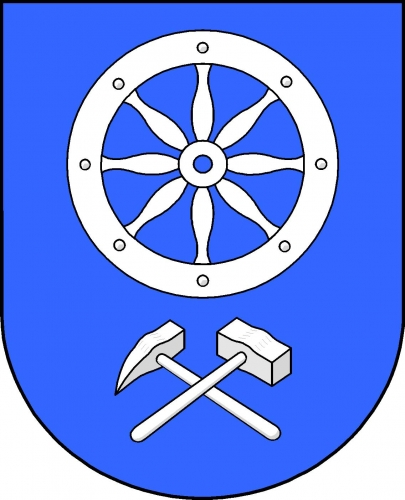 Municipal coat of arms of Nové Město pod Smrkem town, Liberec District, Czech Republic